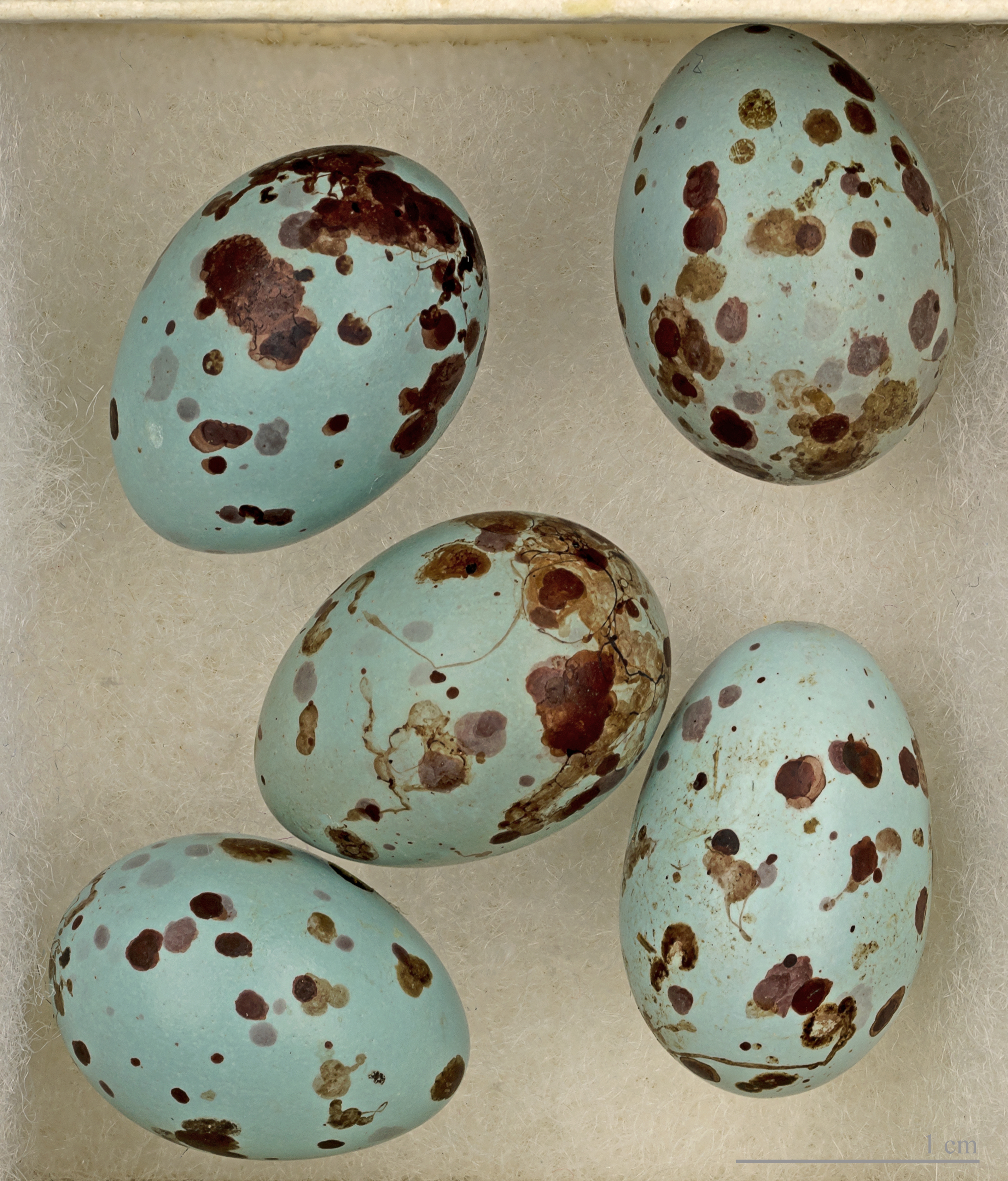 Egg of Prinia molleri. Collection of Jacques Perrin de Brichambaut